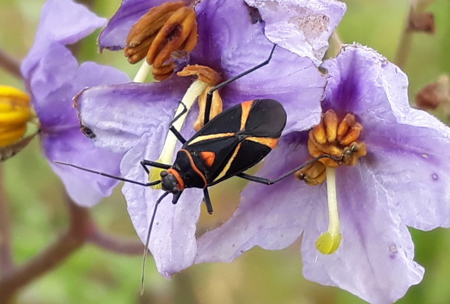 Eurylomata picturata. Species of insect.